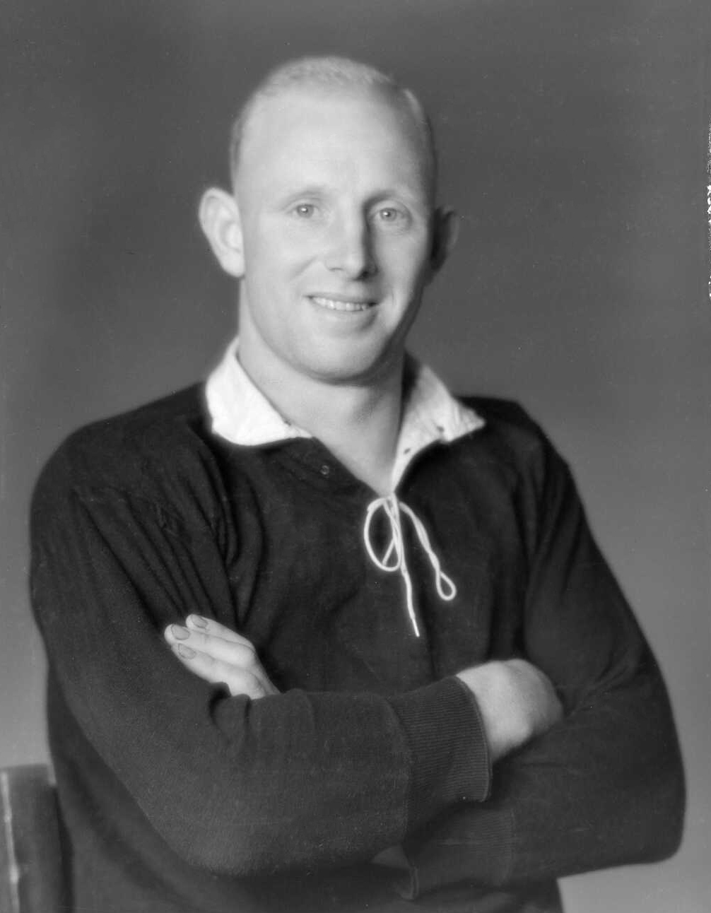 Photograph of Bill Mumm in All Black Uniform, taken by Crown Studio Ltd of Wellington.